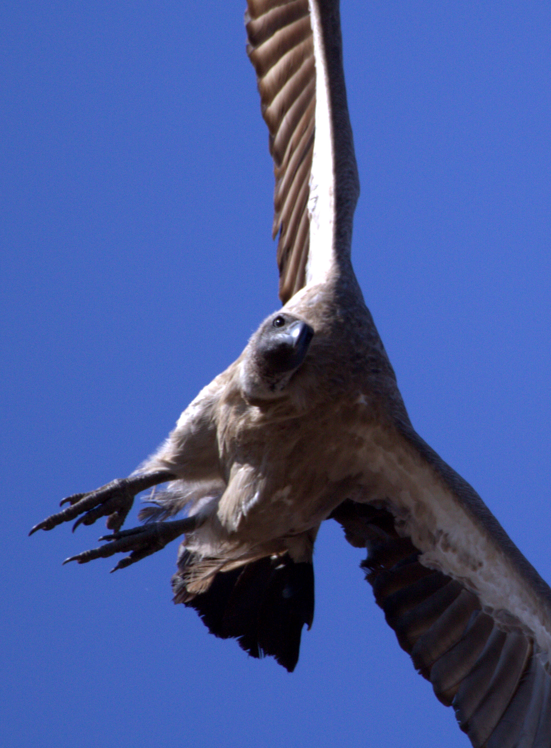 White vulture in flight